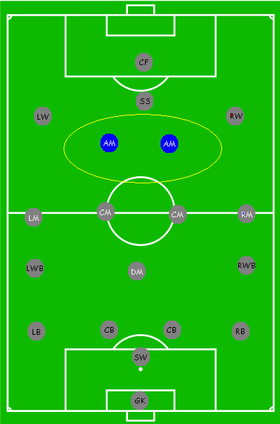 Base image (the pitch) - Image:Boisko.svg by User:MesserWoland Positions added by User:Tiresais